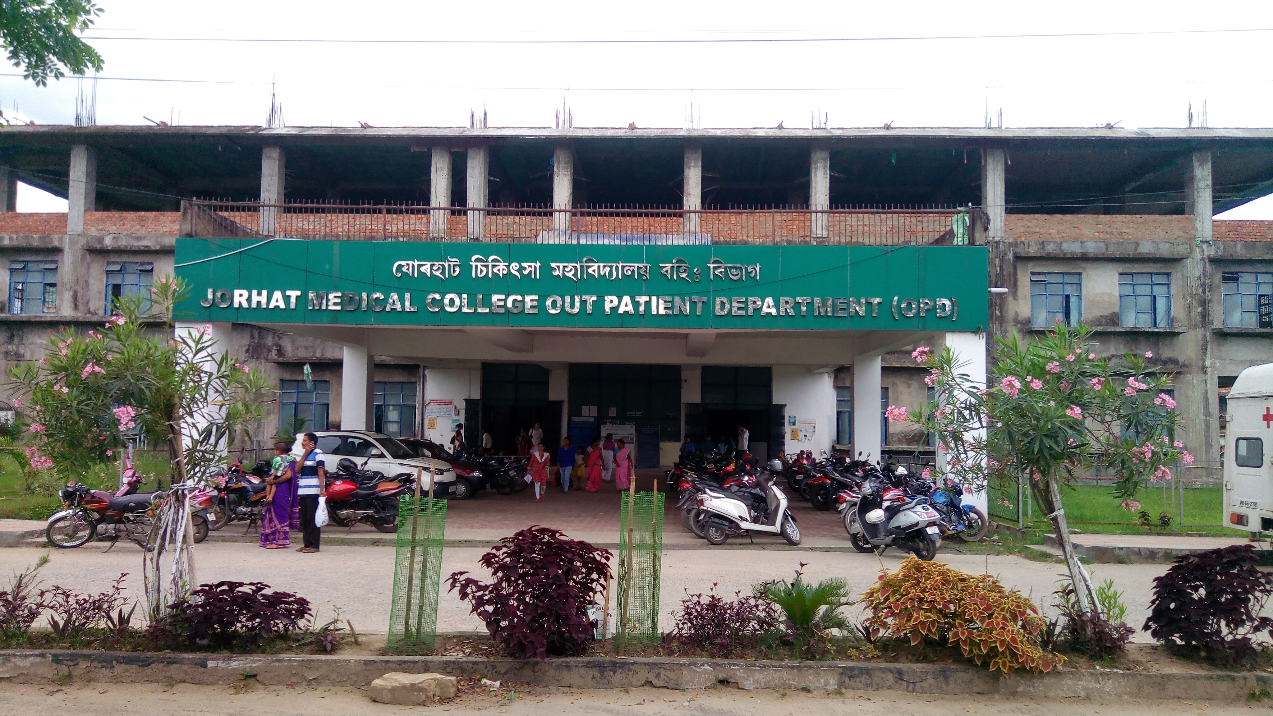 Medical College Jorhat